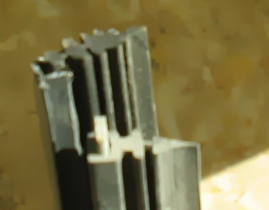 Two different types of wiper blades, top and plurilembo monolembo (Traditional) below.